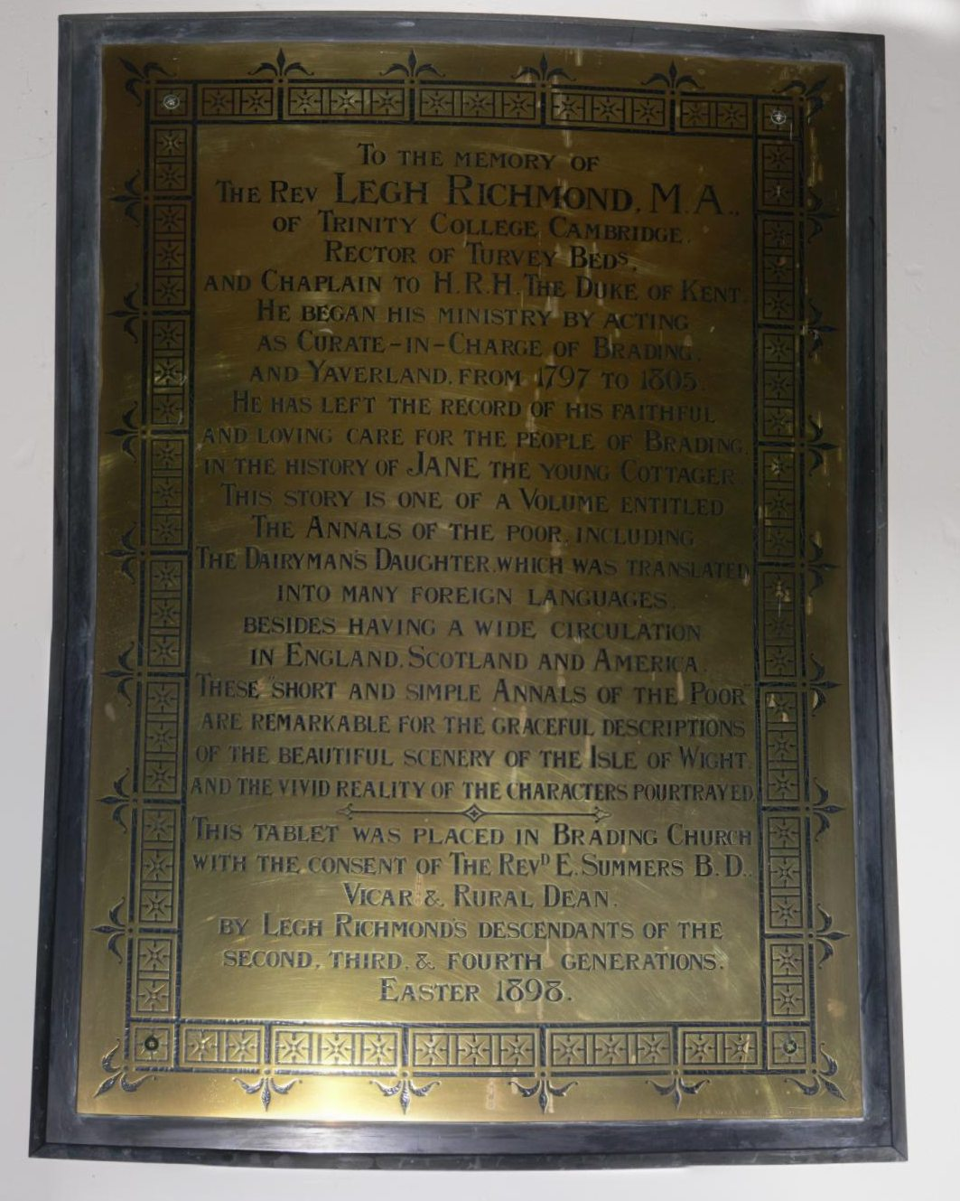 Brass memorial to the Rev Legh Richmond in Brading Church, Isle of Wight